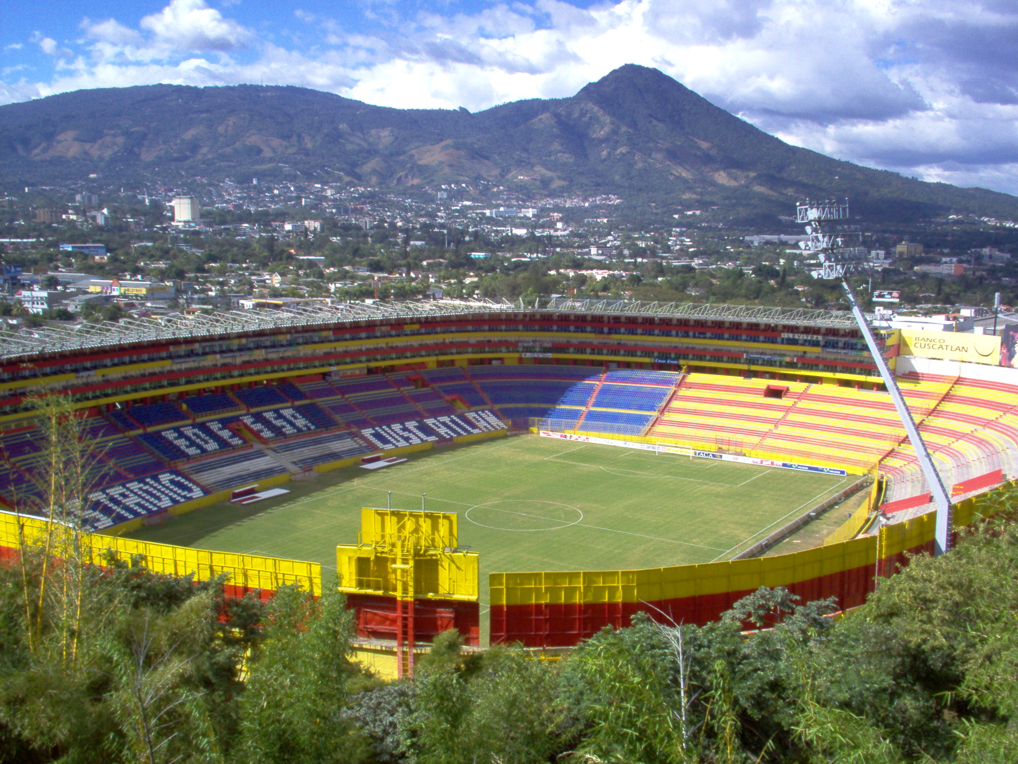 Empty aerial view of the stadium on a sunny day.